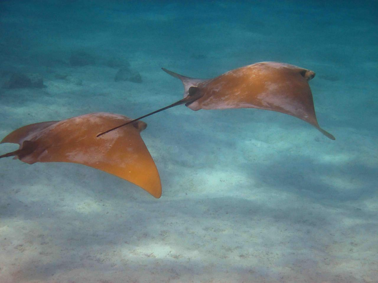 Golden Cownose Ray (Rhinoptera steindachneri) in the Galápagos Islands